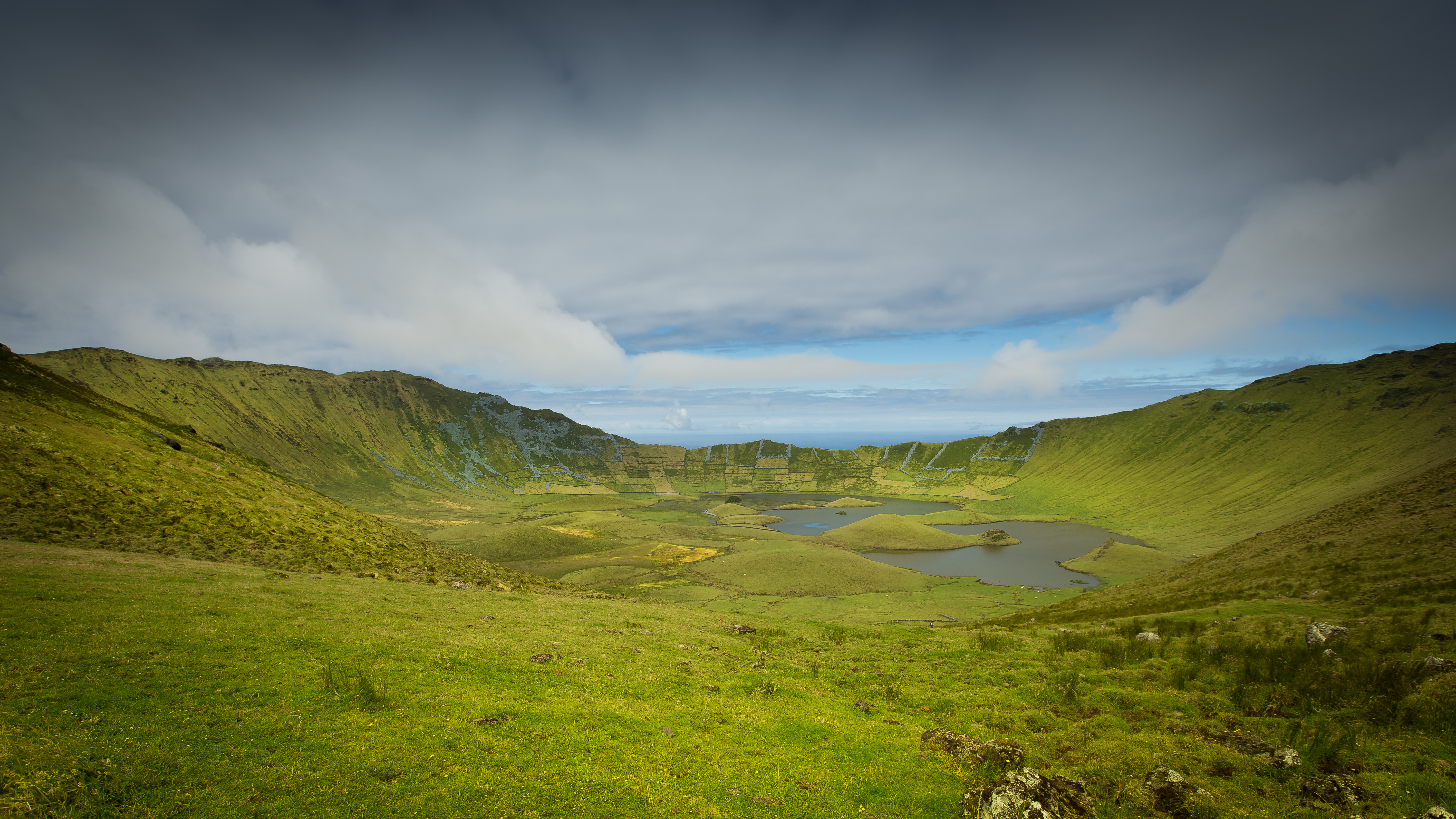 Volcanic caldera in the Azorean island of Corvo.